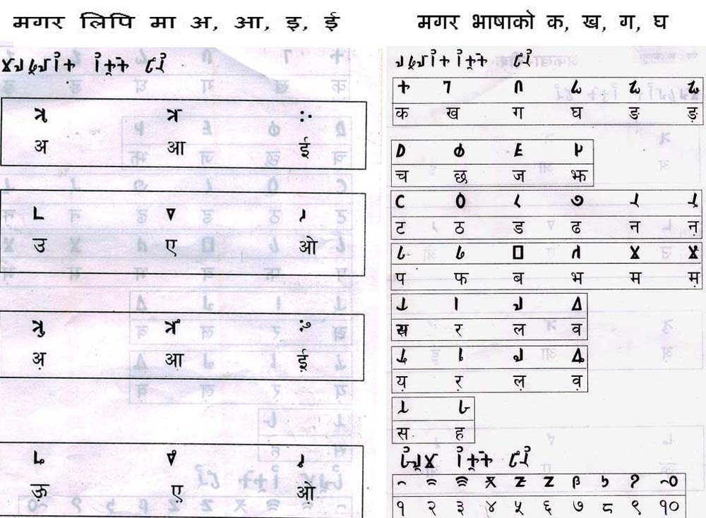 मगर लिपी को एउटा नमुना